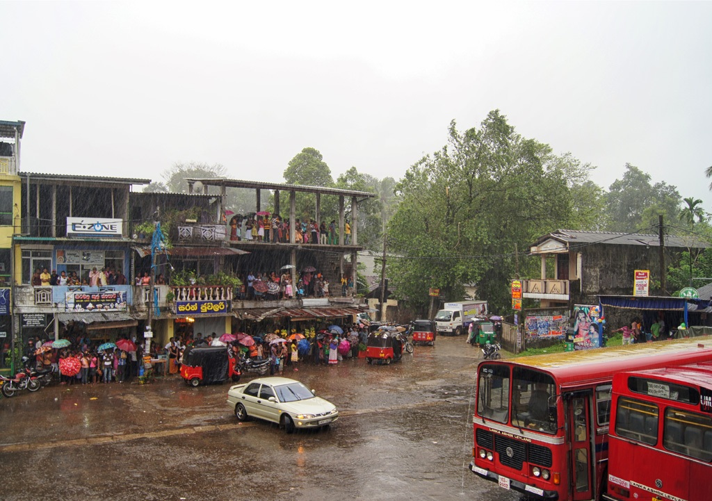 Ingiriya Climate01